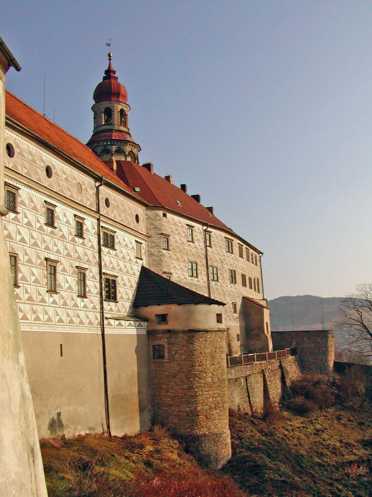 Nachod - Castle (Náchodský zámek) Ślůnski: Pałac we sztadźe Náchod, we Czeskij Republice